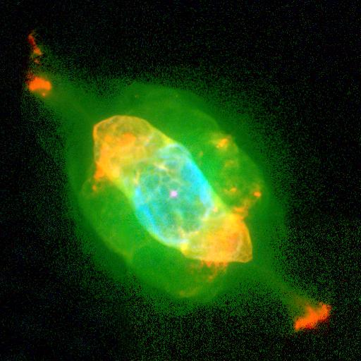 NGC 7009 (Saturn Nebula) Planetary Nebula; Hubble Space Telescope